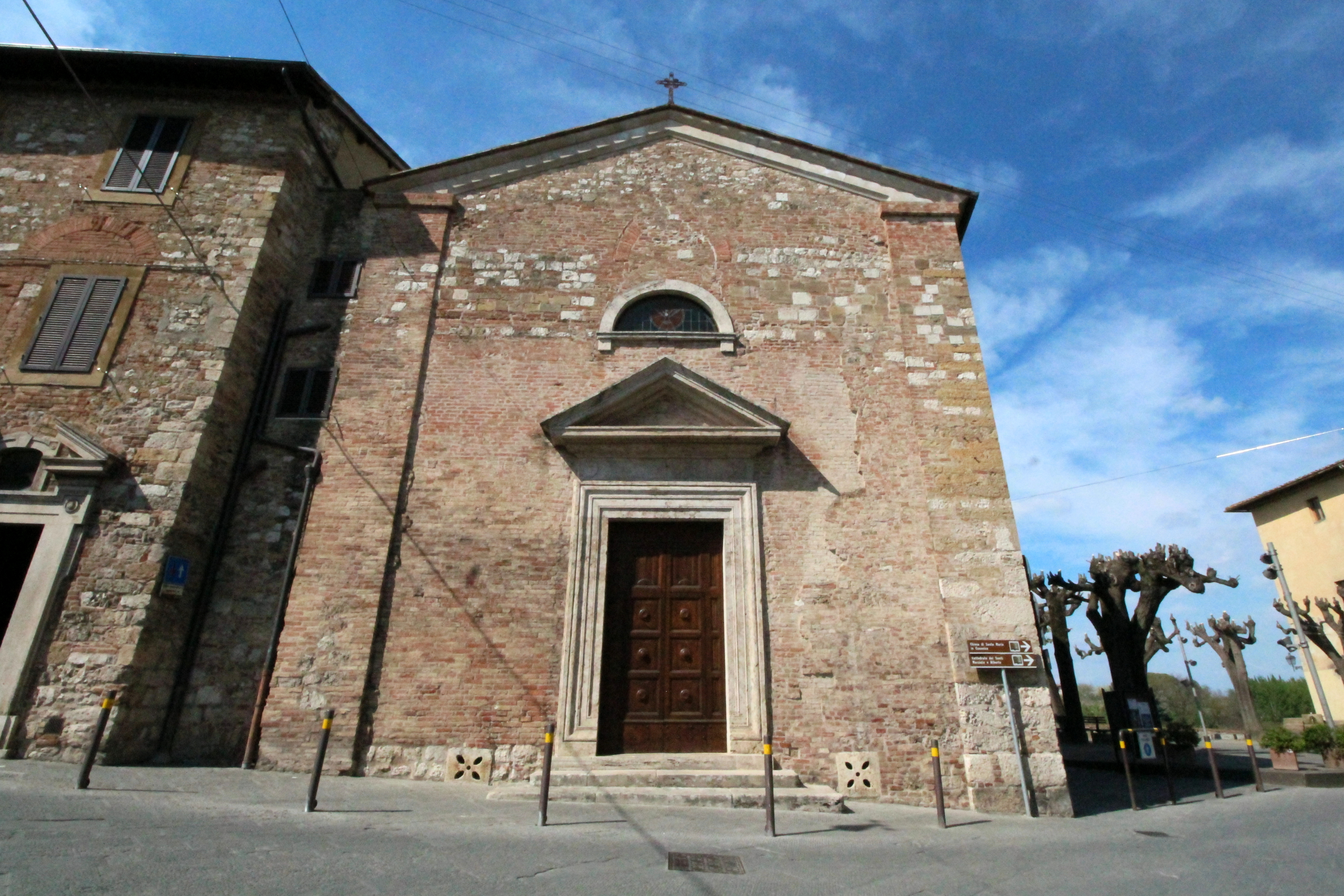 Facade of the Church Santa Caterina d'Alessandria, Colle di Val d'Elsa (alta), Province of Siena, Tuscany, Italy